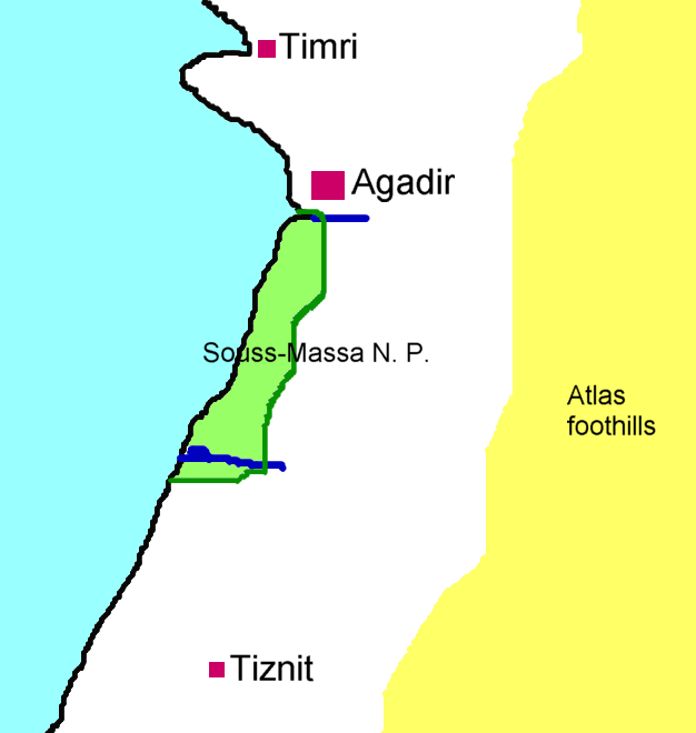 Map showing the areas used by the remaining colonies of Northern Bald Ibis